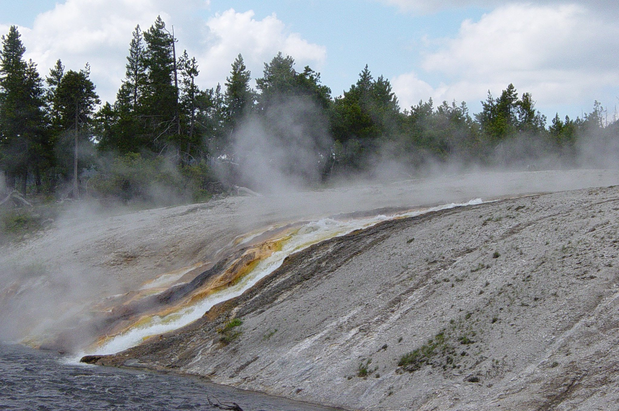 Photo taken in the Yellowstone area.